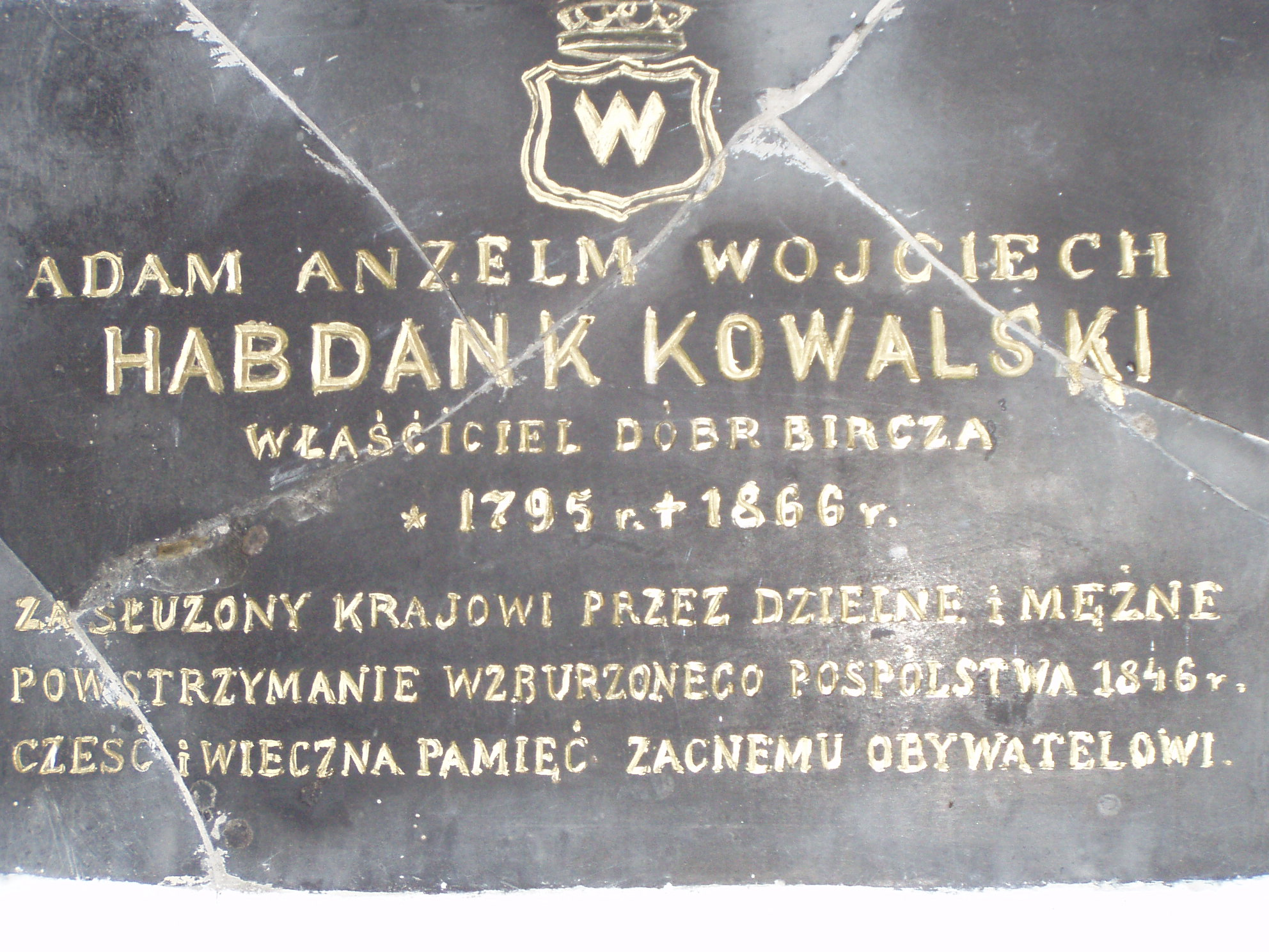 Bircza, Mausoleum of the Kowalski family at the Old Cemetery. Tomb slab of Adam Anzelm Wojciech Kowalski (1795-1866).